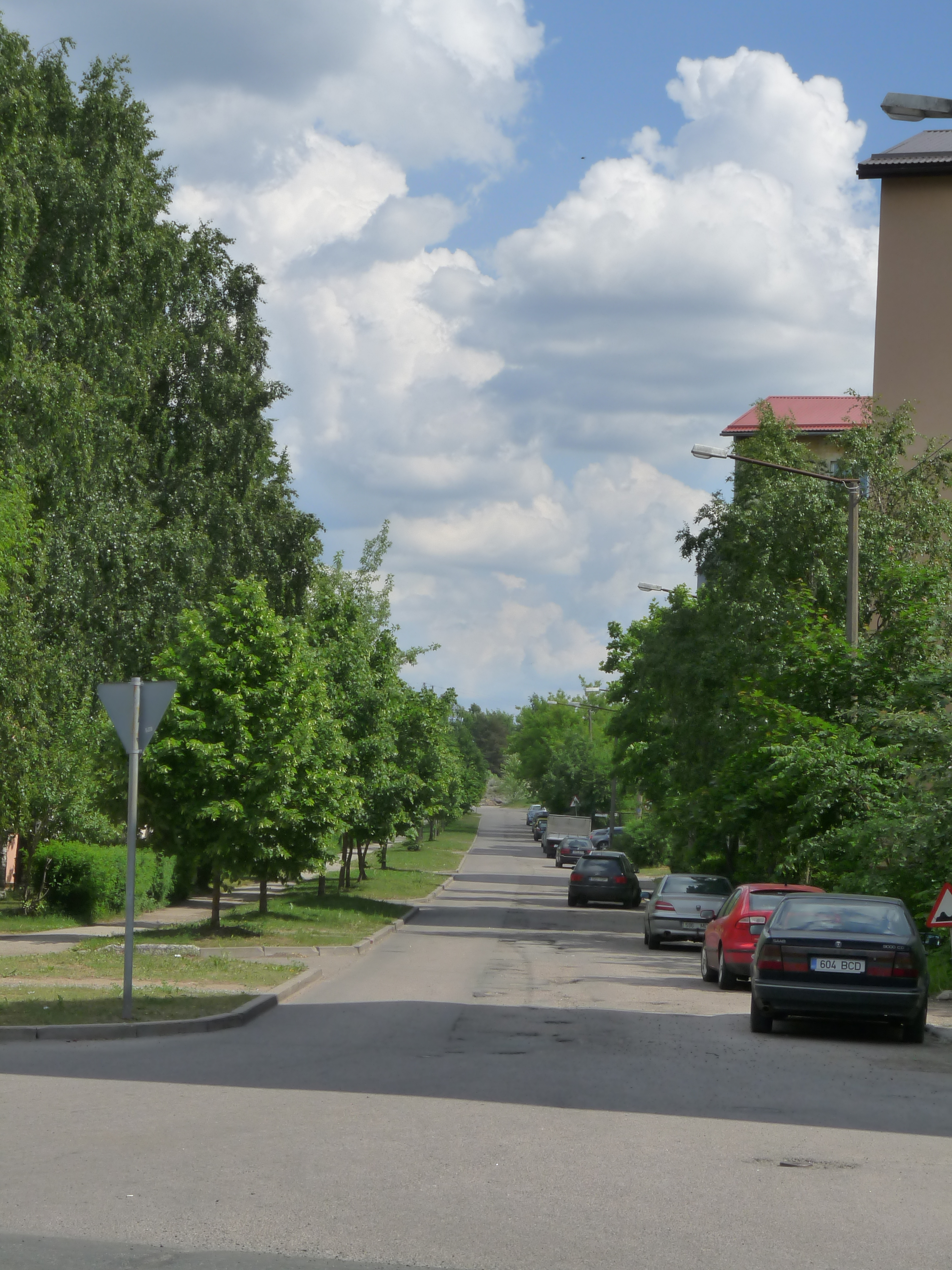 Energia street in Tallinn, Estonia